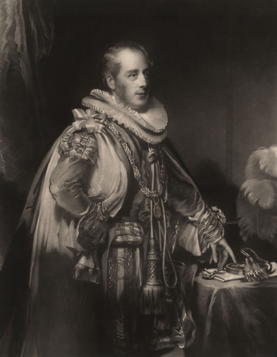 Sir Charles Bagot, the Governor General of the Province of Canada (1841-43). Reproductions of a work by Henry William Pickersgill. This file includes two different reproductions of the work: The version uploaded on 11 January 2007 (and retouched on 8 November 2008) is a reproduction by Bibliothèque et Archives Nationales du Québec (BAnQ) of a printed copy (from the fonds Livernois, photographer, Québec) of a photographic reproduction of the work. It was overwritten on 20 August 2015 by an image of a different reproduction of undisclosed origin. (Possibly showing the mezzotint engraving by John Burnet, originally published by J. Ryman, Oxford, March 1, 1844.)